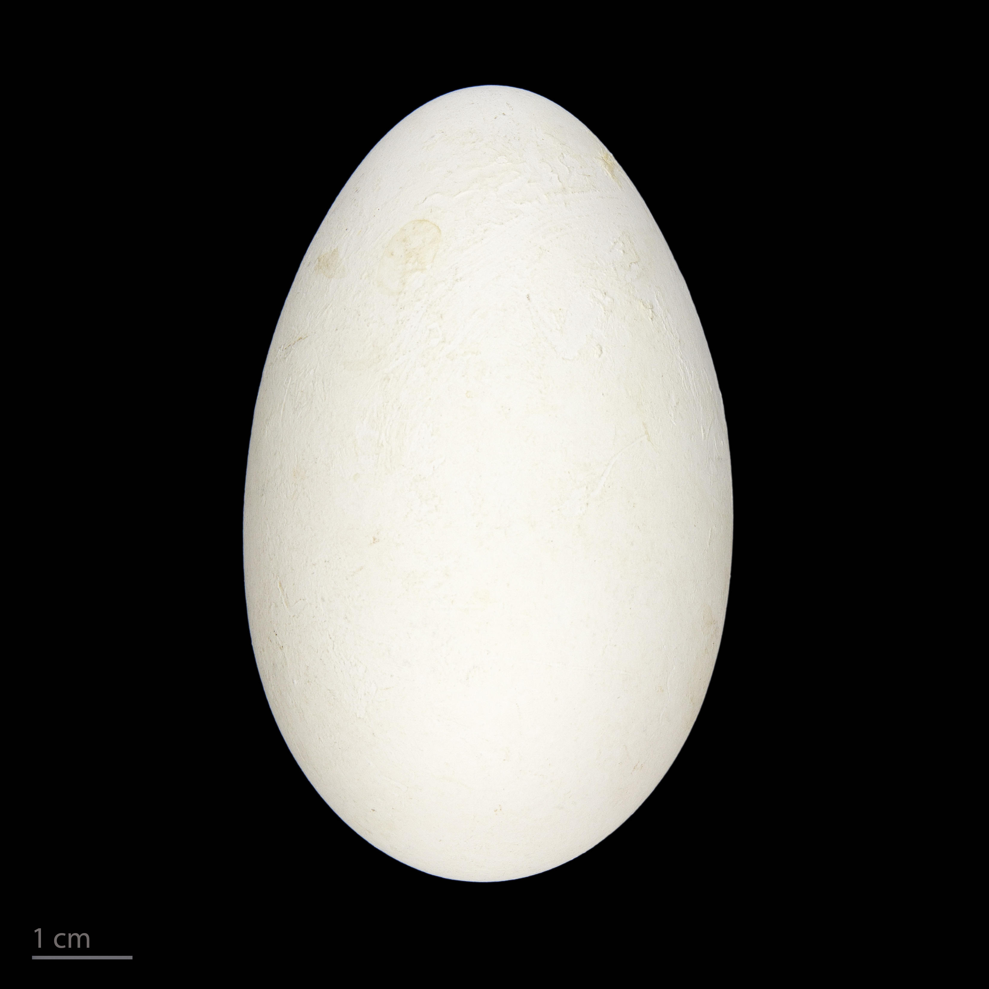 Egg of great frigatebird Collection of Jacques Perrin de Brichambaut.